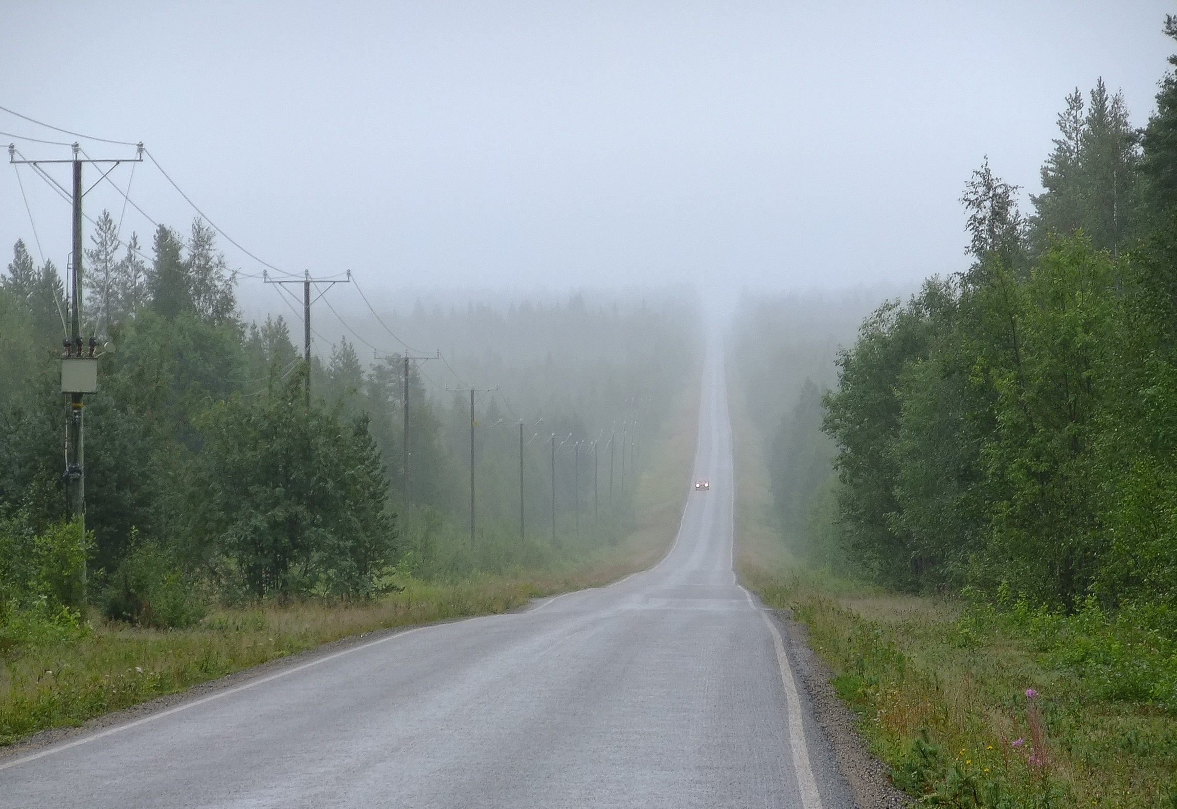 Road to Kaukonen in Kittilä, Finland